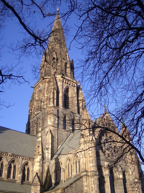 St Mary's Cathedral, Edinburgh